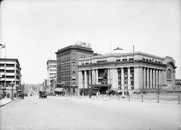 Rideau Street, Ottawa looking east. Union Station, Daly Building, Corry Block. (photo Rideau_Street_03.jpg contains similar buildings)